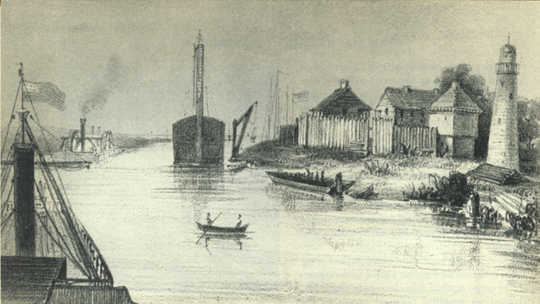 Chicago, About 1838